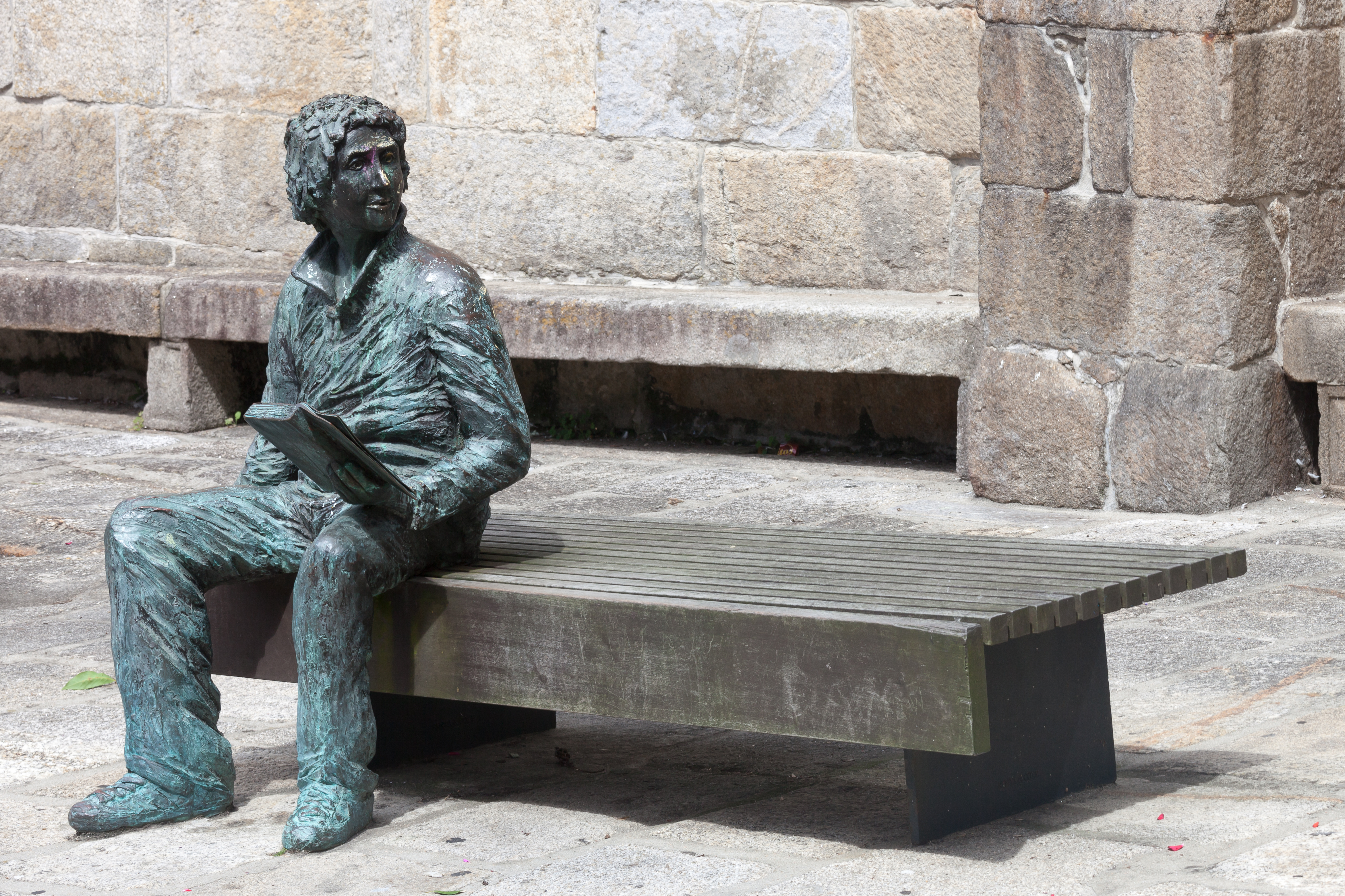 Sculpture in A Guarda, Galicia (Spain).